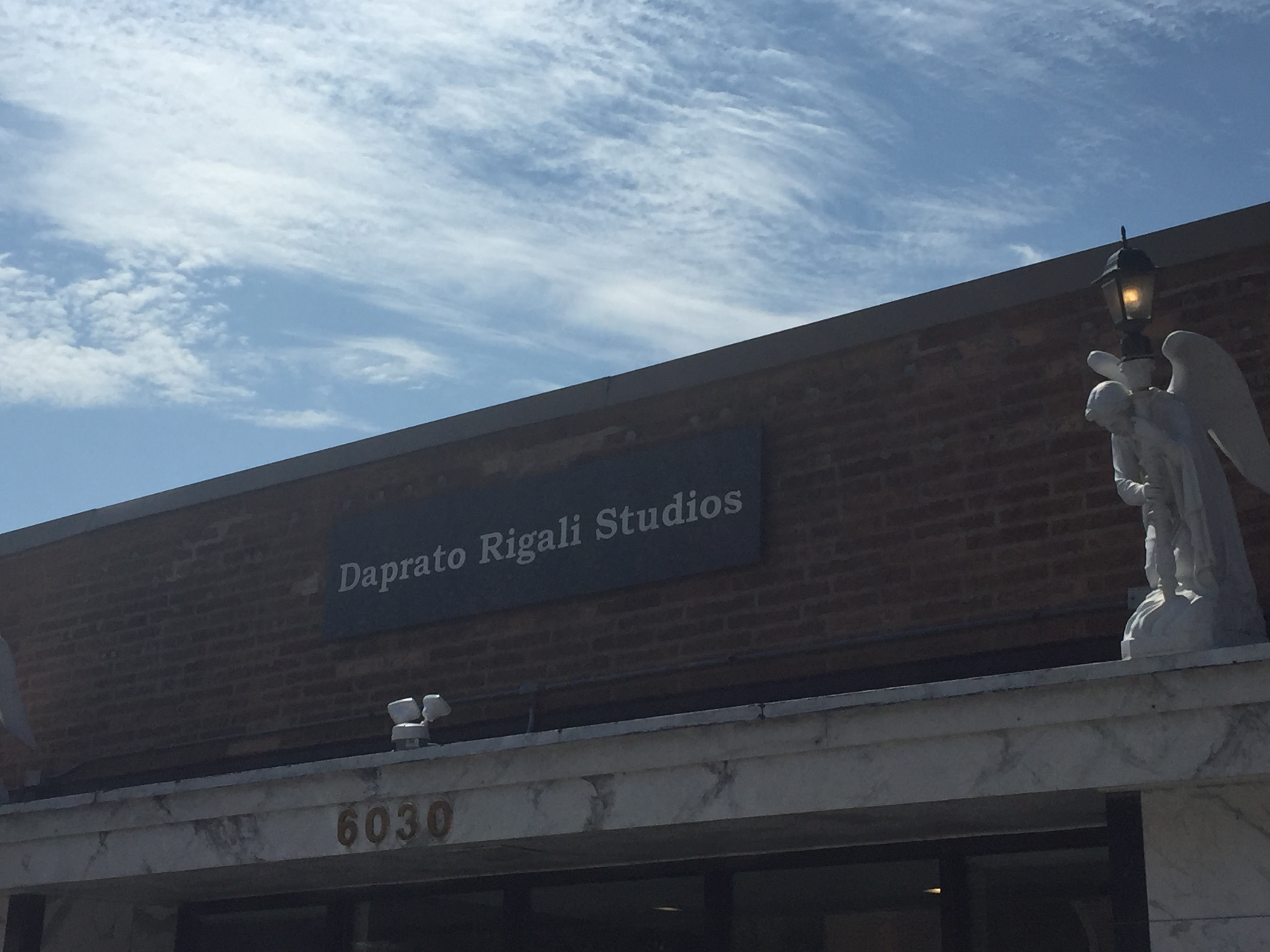 Daprato Rigali Studios Chicago Headquarters